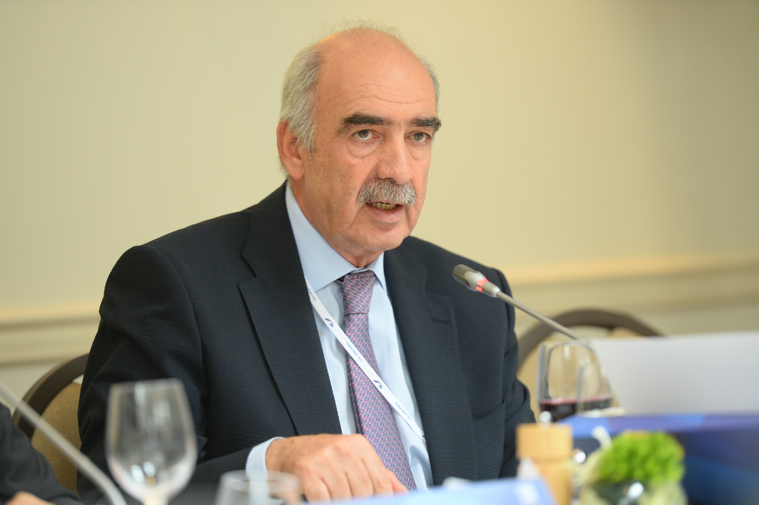 EPP Summit, Brussels, July 2015